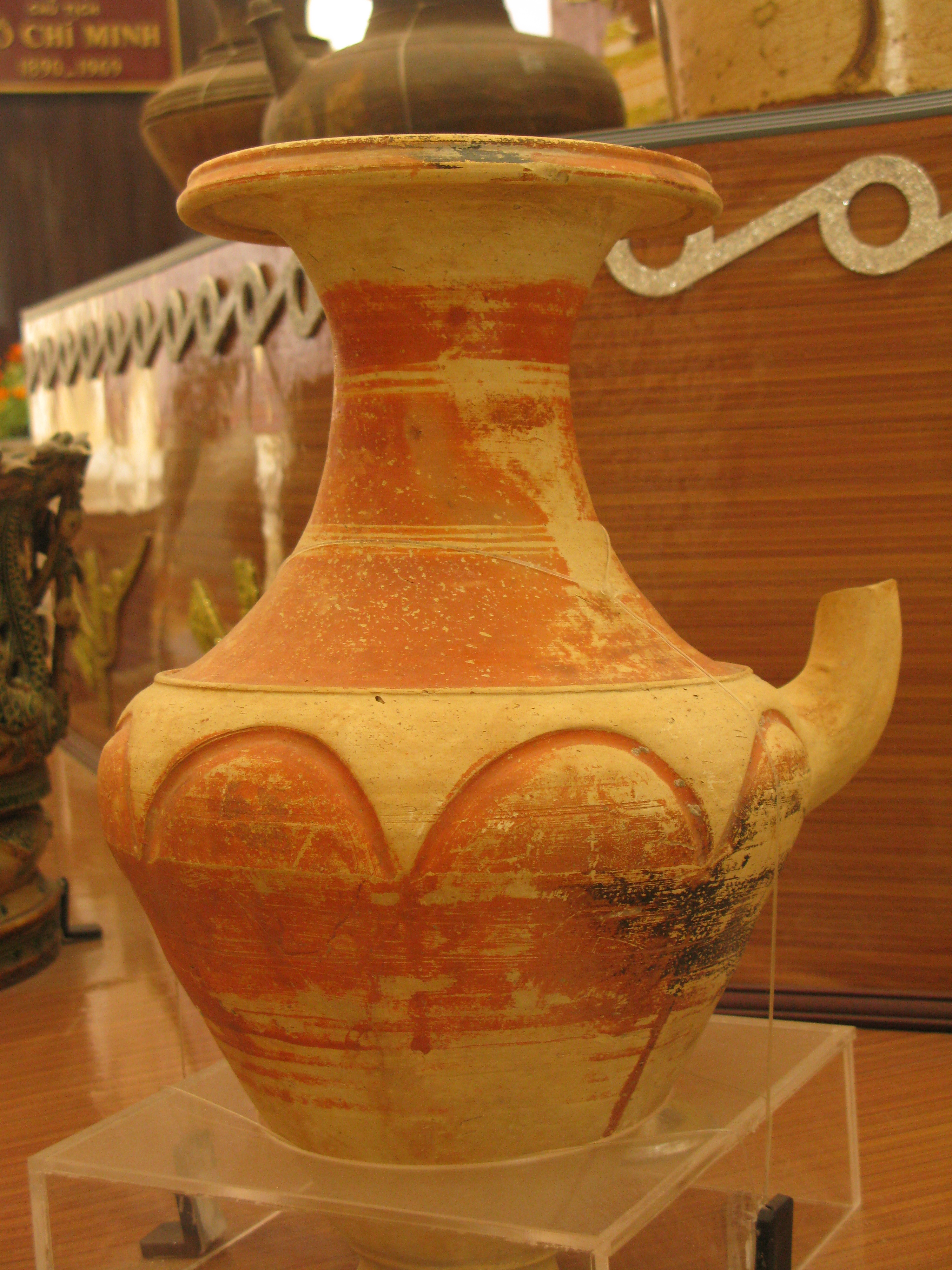 Terracotta ewer, Oc Eo Culture